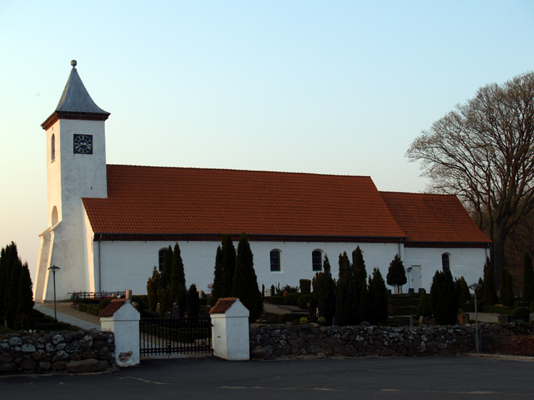 Thorning Kirke Photo by Kim Konnerup, 5 may 2006